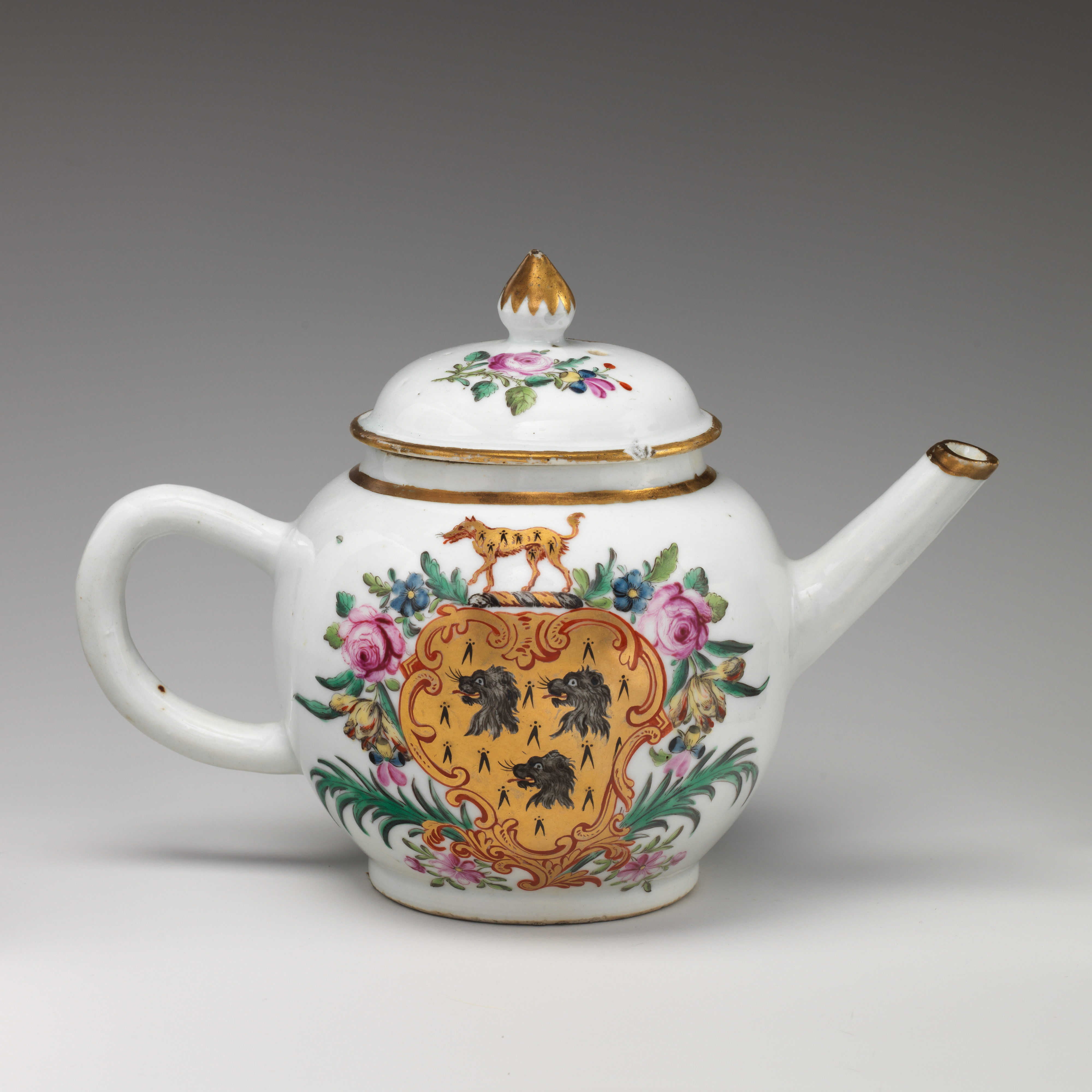 Chinese with British decoration; Teapot; Ceramics-Porcelain-Export